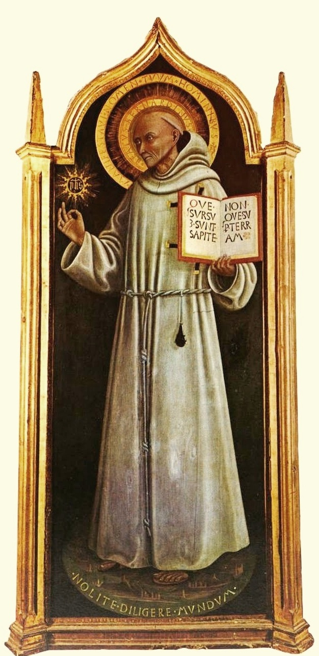 Pietro_di_Giovanni_d'Ambrogio._St_Bernardino__196x89cm._ca.1444._Pinacoteca,_Siena